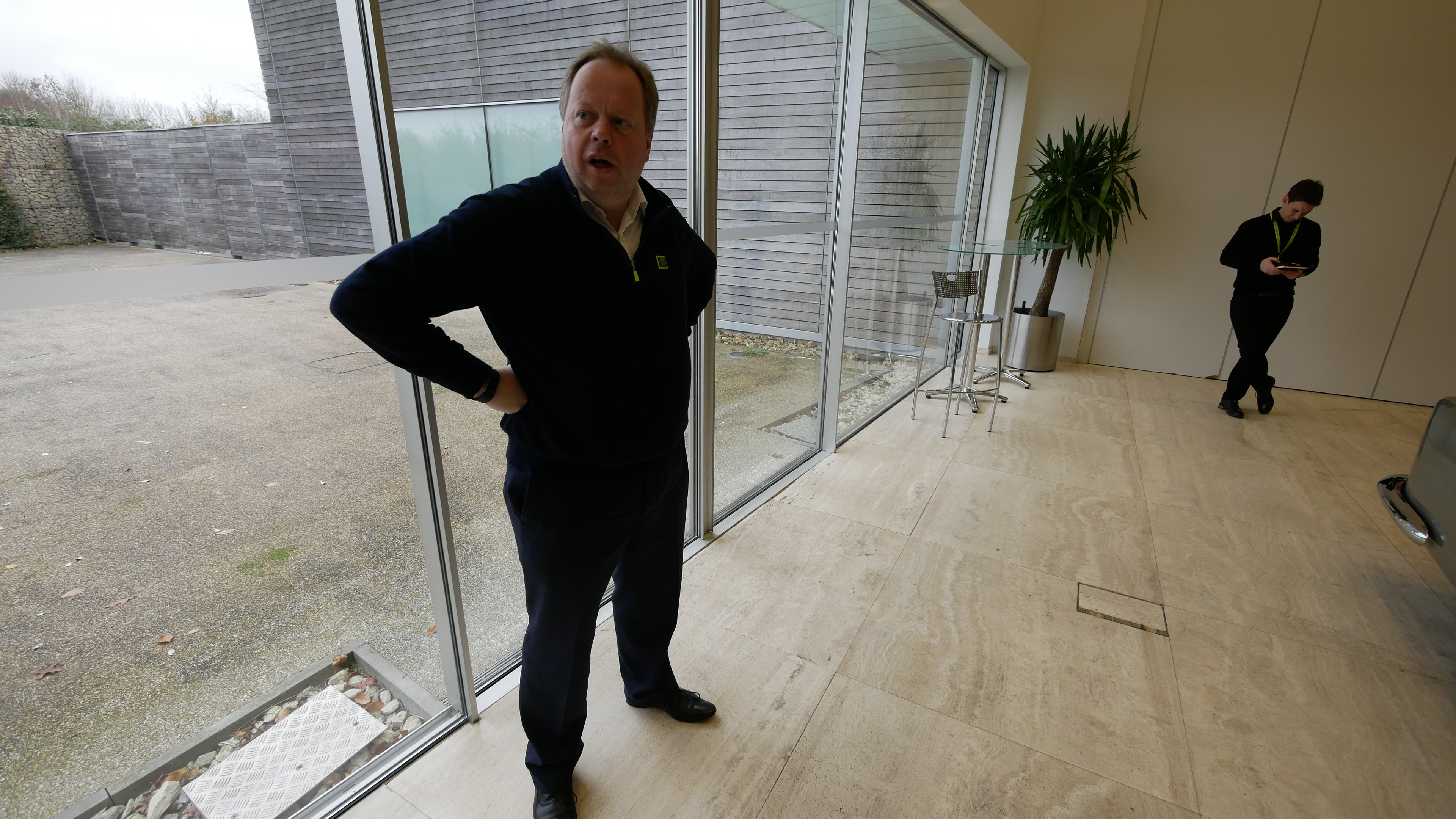 Aston Martin Group CEO Andy Palmer at the company headquarters in Gaydon, UK